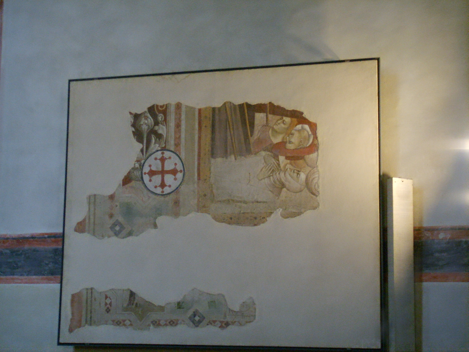 Santa Croce museum, refectory, Orcagna fresco, in Florence, Italy